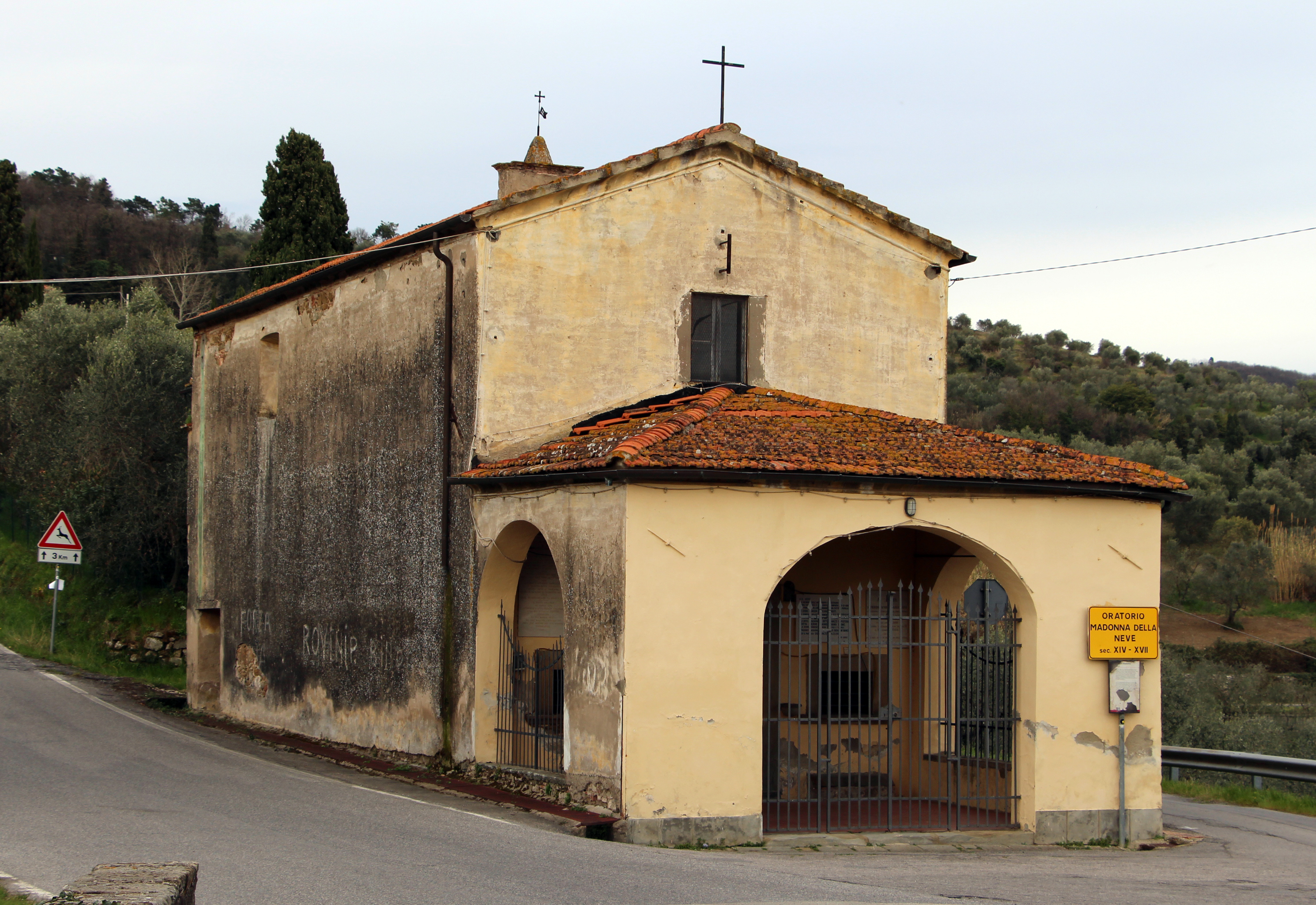 Madonna della Neve (Montevettolini)